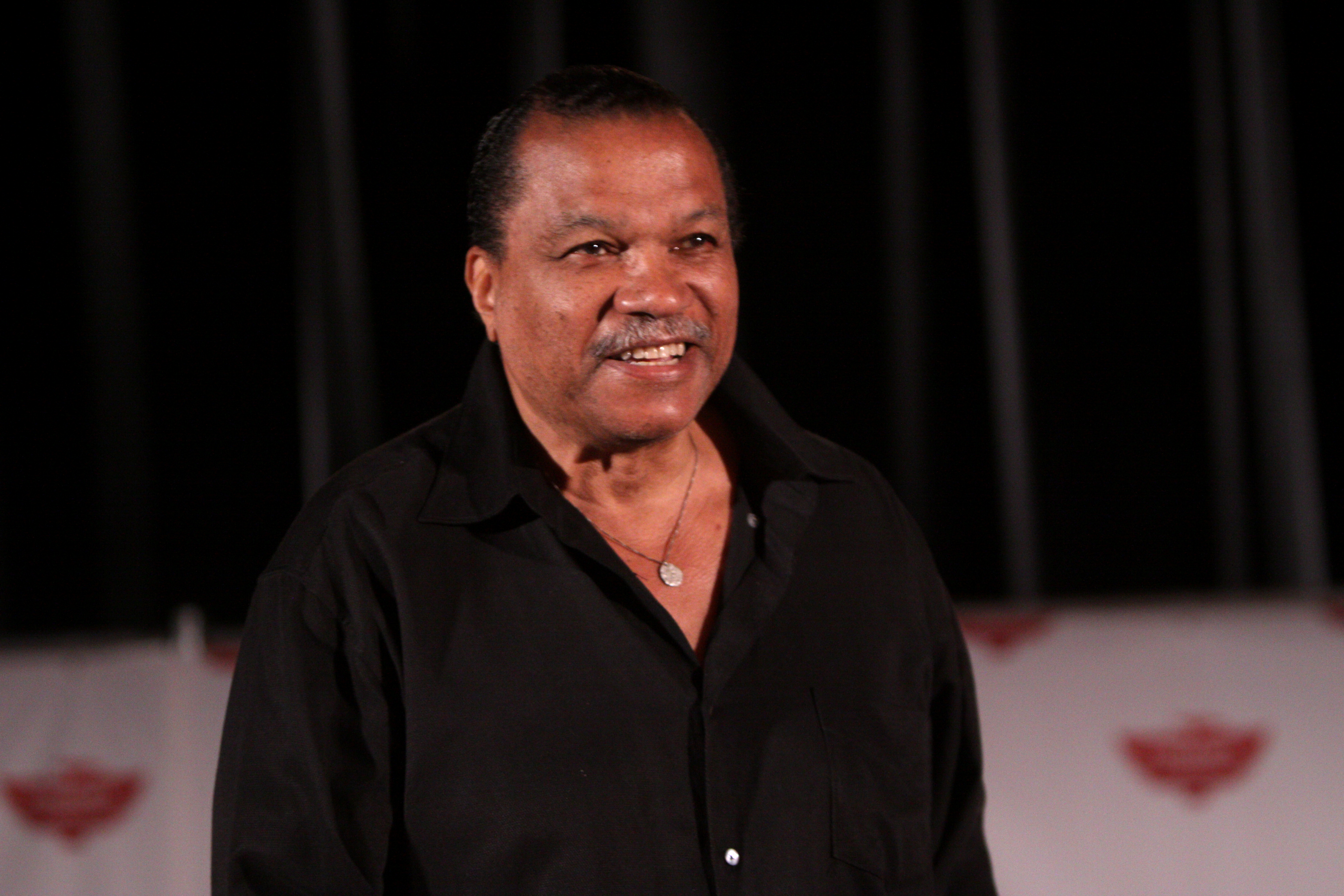 Billy Dee Williams at the Phoenix Comicon in Phoenix, Arizona.